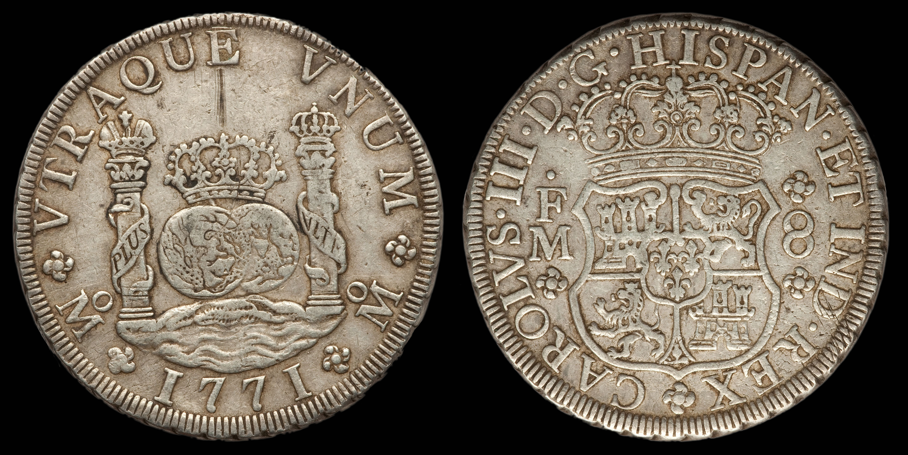 Mexico Carlos III Pillar Dollar of 8 Reales 1771(231422-64179)